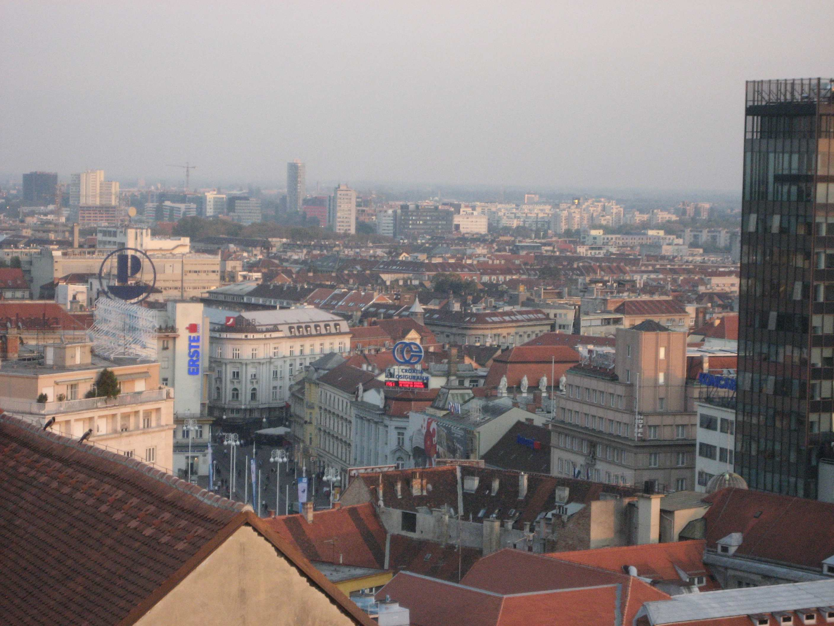 Zagreb, Centre